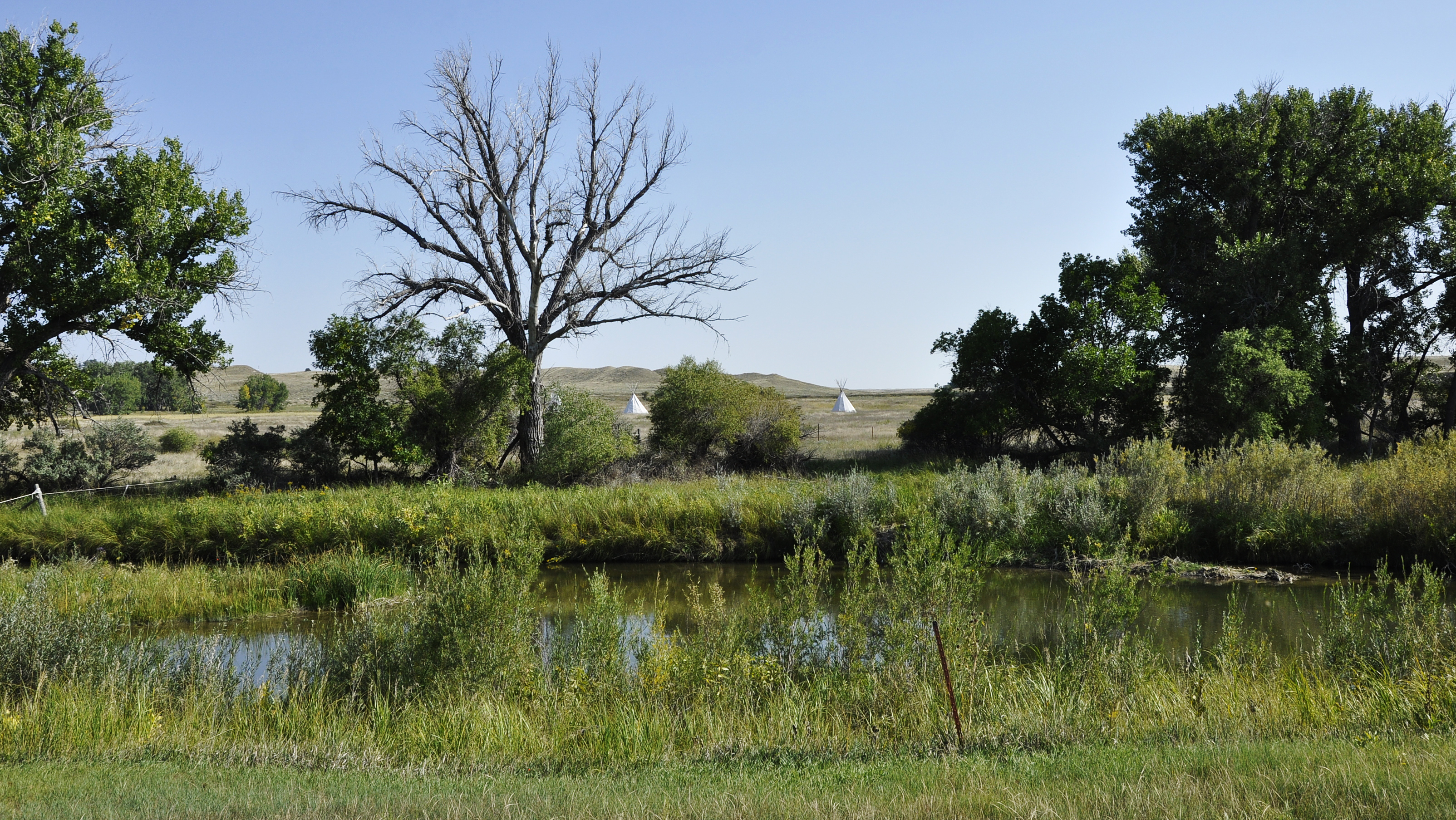 Fort Laramie National Historic Site, Wyoming, USA - the treaty of 1851 was negotiated 30 miles downriver from Fort Laramie at the mouth of Horse Creek